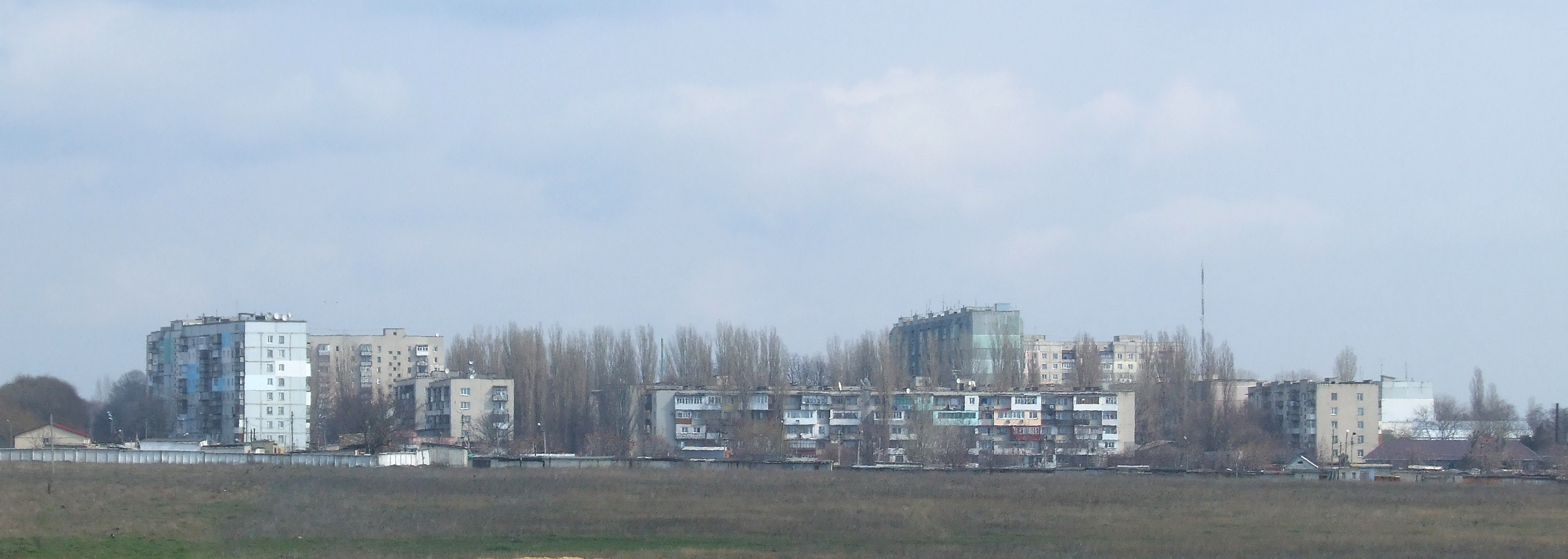 A view of Chornomorske, Kominternivskyi Raion, Odessa Oblast, Ukraine